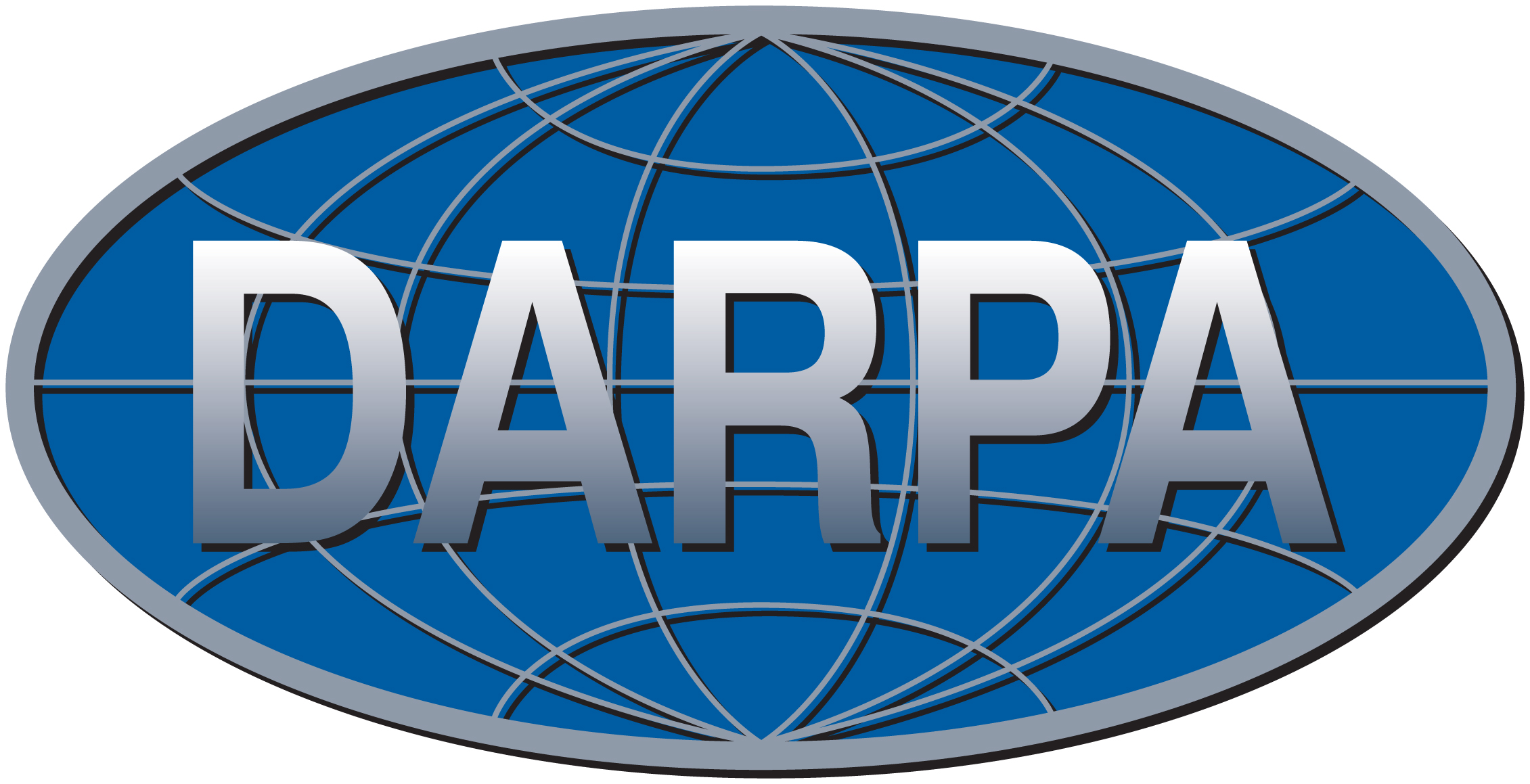 This was the most up-to-date DARPA logo as of January 2009. It is obsolete now.